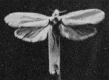 The Yucca Moth, emerging from her cocoon, flies at night to a Yucca flower and collects pollen from the stamens, holding a little ball of it in her mouth-parts. She then visits another flower and lays an egg in the seed-box. After this she applies the pollen to the tip of the pistil, thus securing the fertilisation of the flower and the growth of the ovules in the pod. Yucca flowers in Britain do not produce seeds because there are no Yucca Moths.